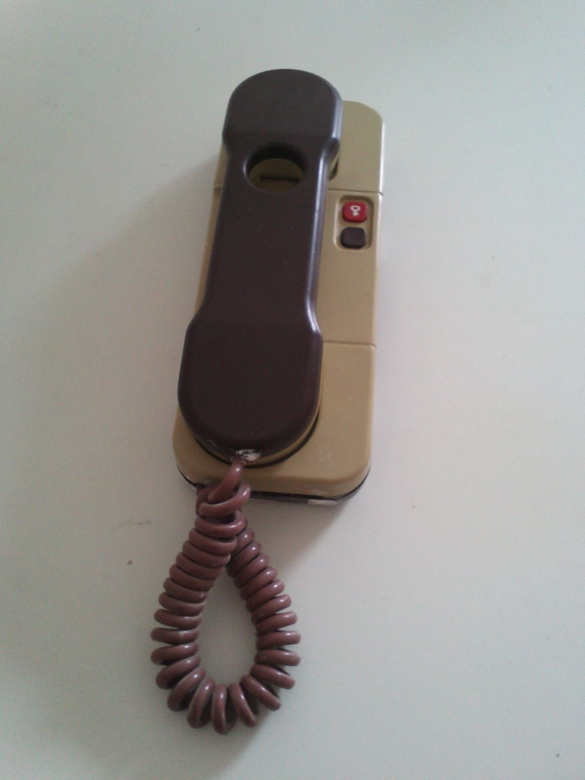 Home telephone Tesla version 4EP110 3611, Prague, Czech Republic.